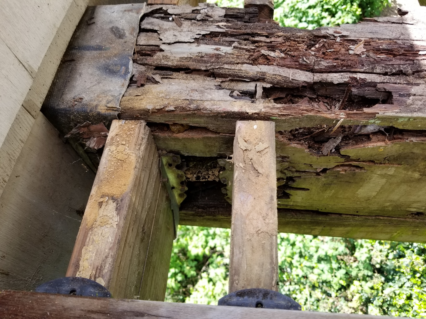 This is an image of dry rot found on a deck support beam.